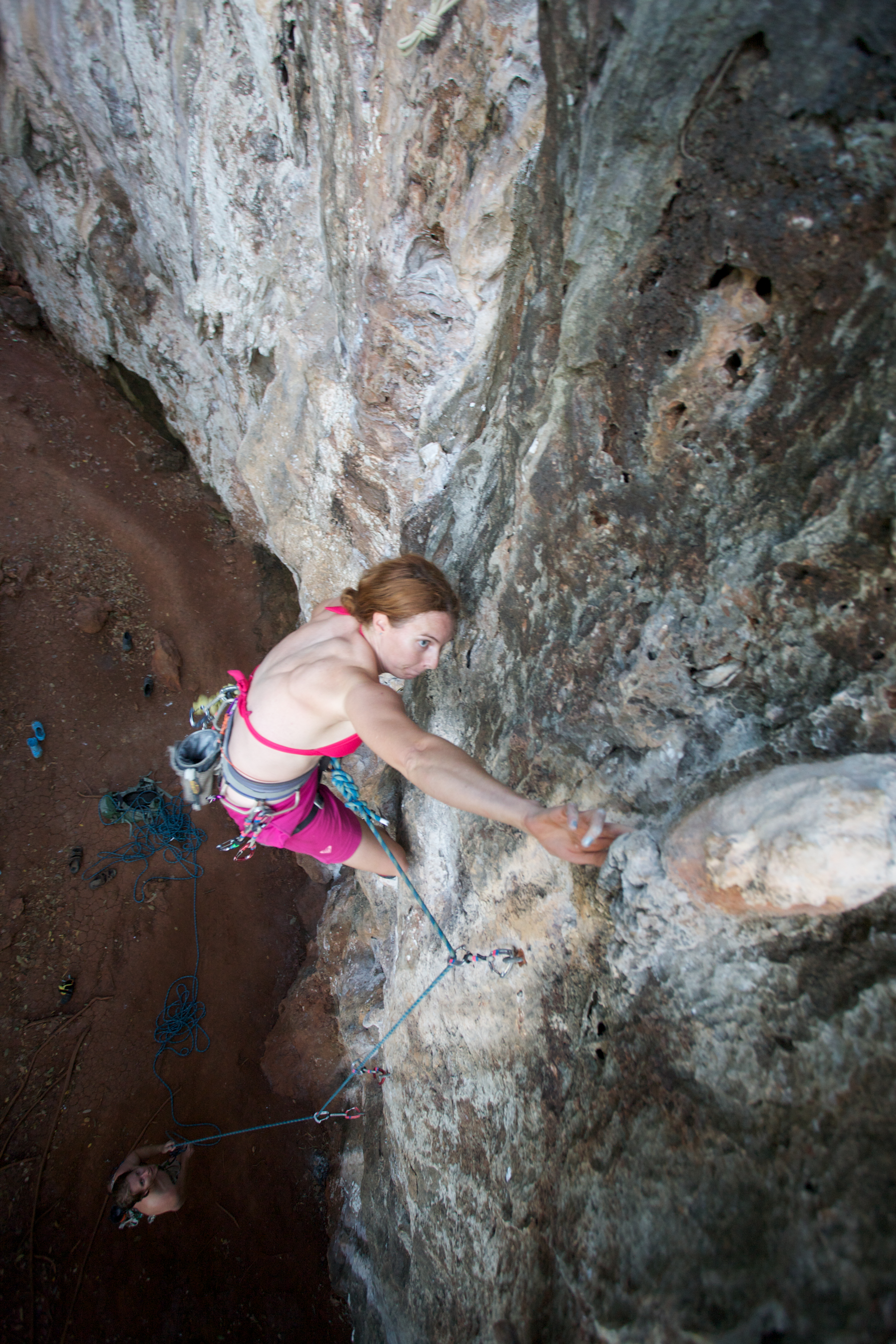 Climber on route at Railay, Thailand Climber A. Presson in Railay Beach, Thailand.